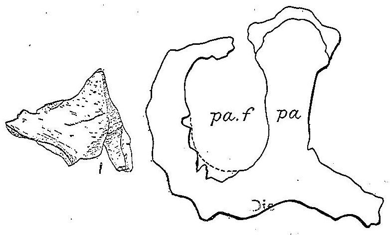 Nasal horn base and holotype frill of Monoclonius crassus, AMNH 3998.